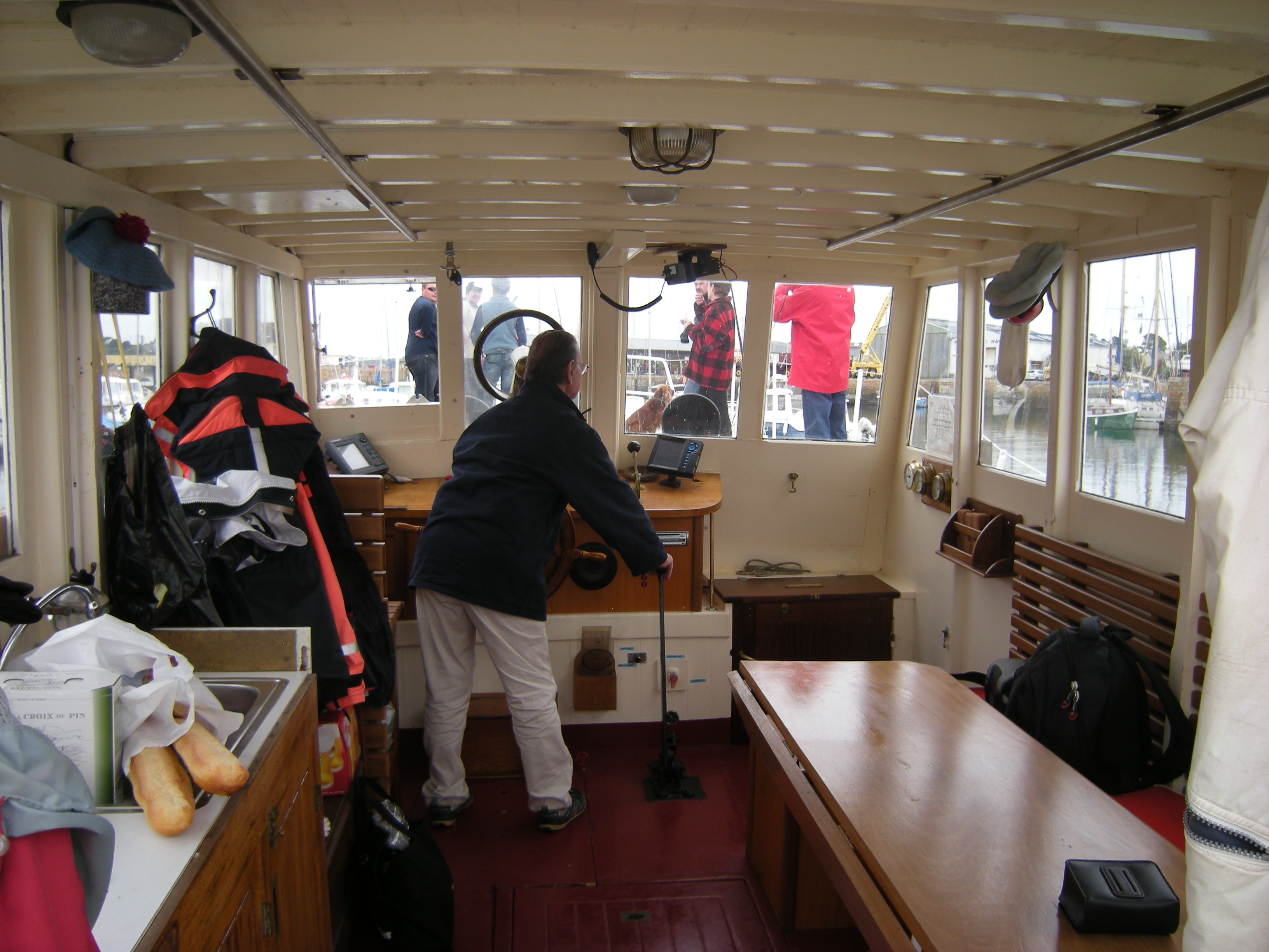 Cabin of La Horaine, lighthouse tender of Lézardrieux, Bretagne, France